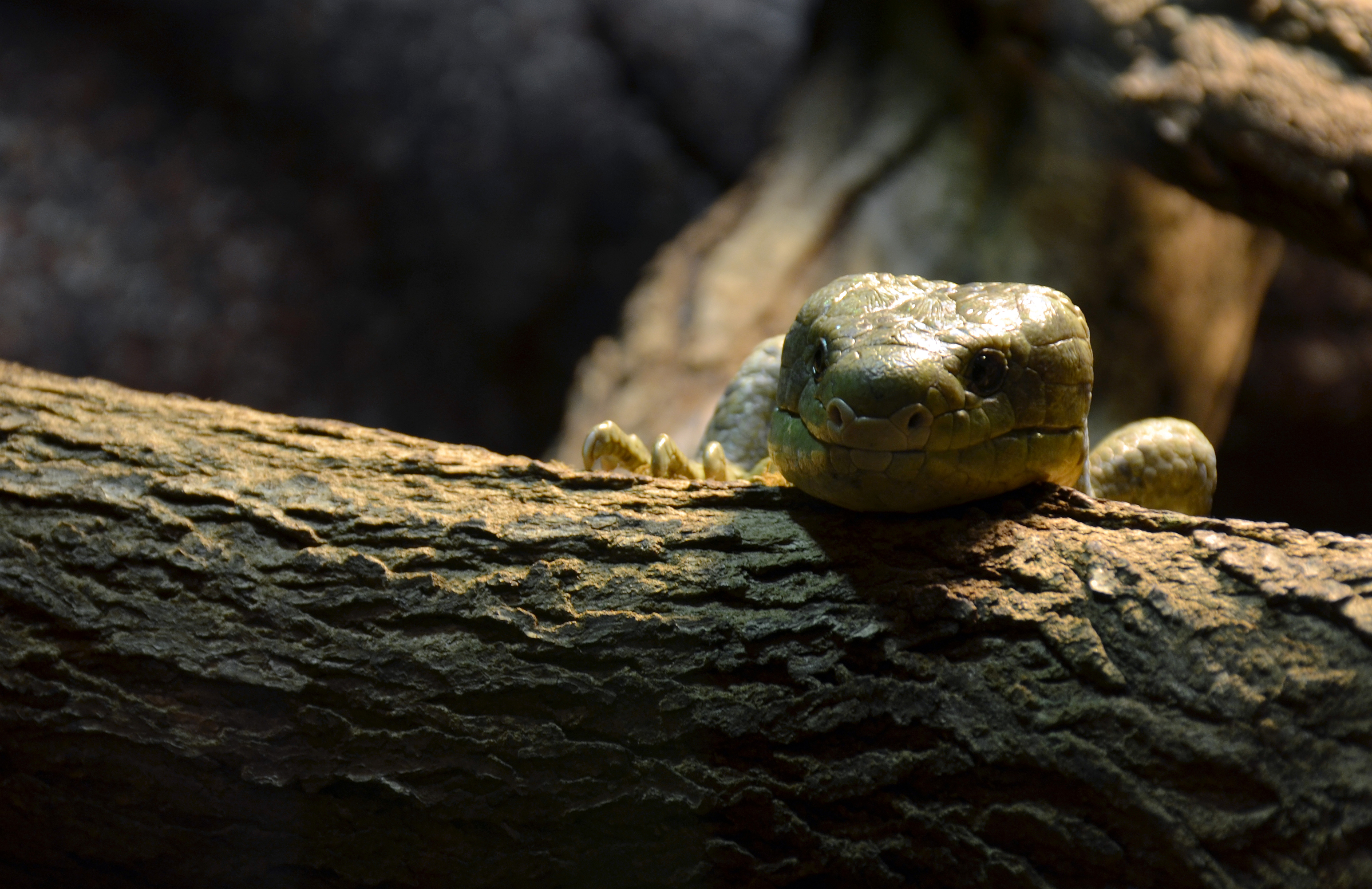 Prehensile Tailed Skink ( Corucia zebrata ) in the Serpentarium, in Blankenberge.